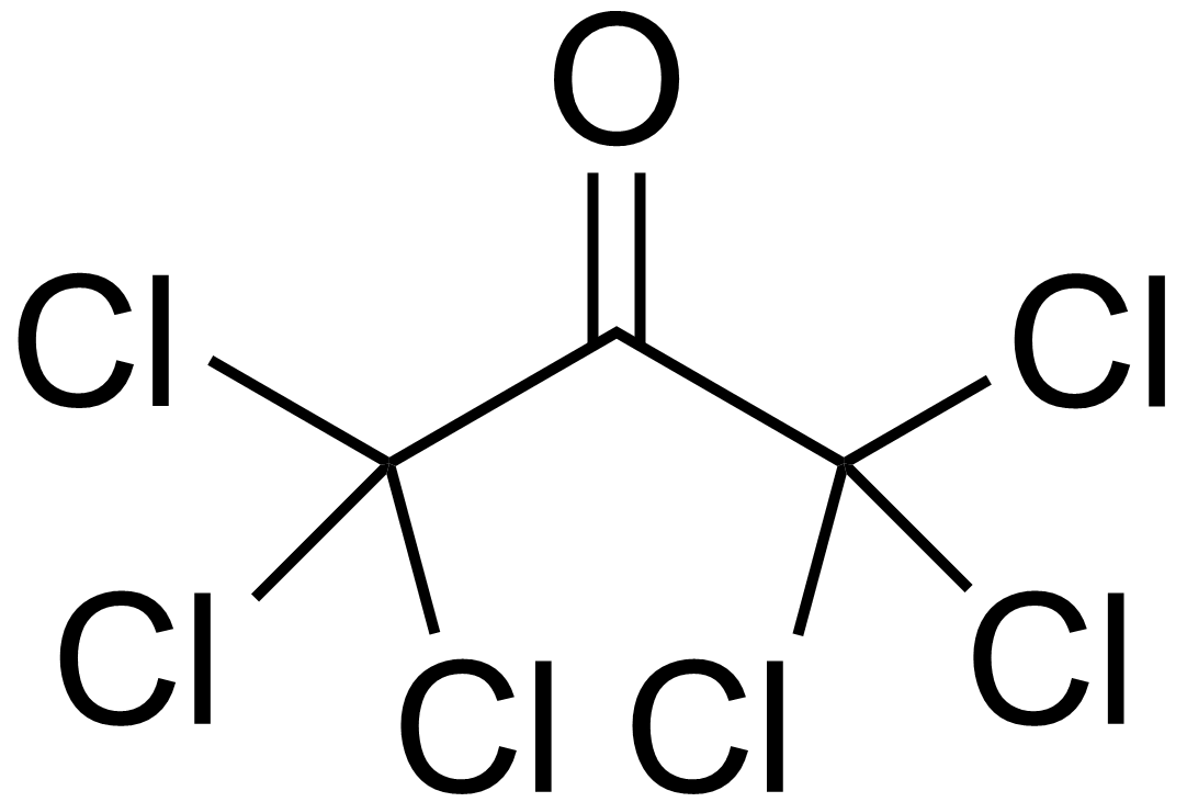 chemical structure of hexachloroacetone